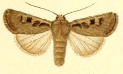 Image from Plate 7 of Die Gross-Schmetterlinge der Erde (The Macrolepidoptera of the World) Vol. 3